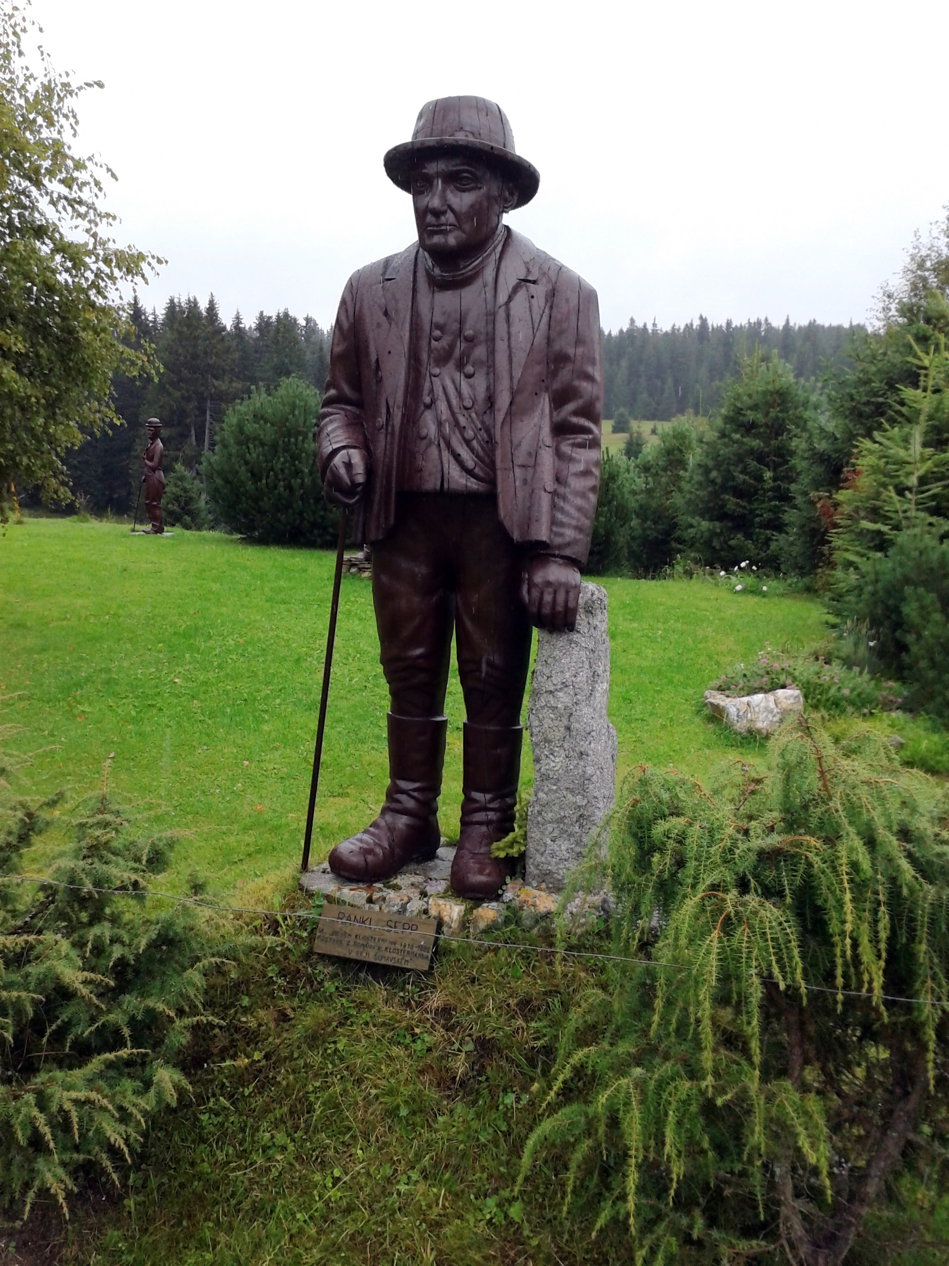 The wooden statue of Joseph Klostermann (* 1819 - 1888), alias "Rankelský Sepp" or abbreviated "Rankl Sepp". He was the legendary person of the old Šumava. He was good-hearted strongman whose in his novel "The Šumava Paradise" (V ráji šumavském) captured the writer Karel Klostermann. Over two meters tall (213 cm) statue of Rankl Sepp is located (the year 2016), on the opposite side of the Hotel Rankl at Horská Kvilda. The statue was made by an amateur woodcarver Mr. Ladislav F. Pavel from Horska Kvilda. Statue weighs 200 kg, is carved out of four logs of firewood red oak and the creator worked on it for three years.